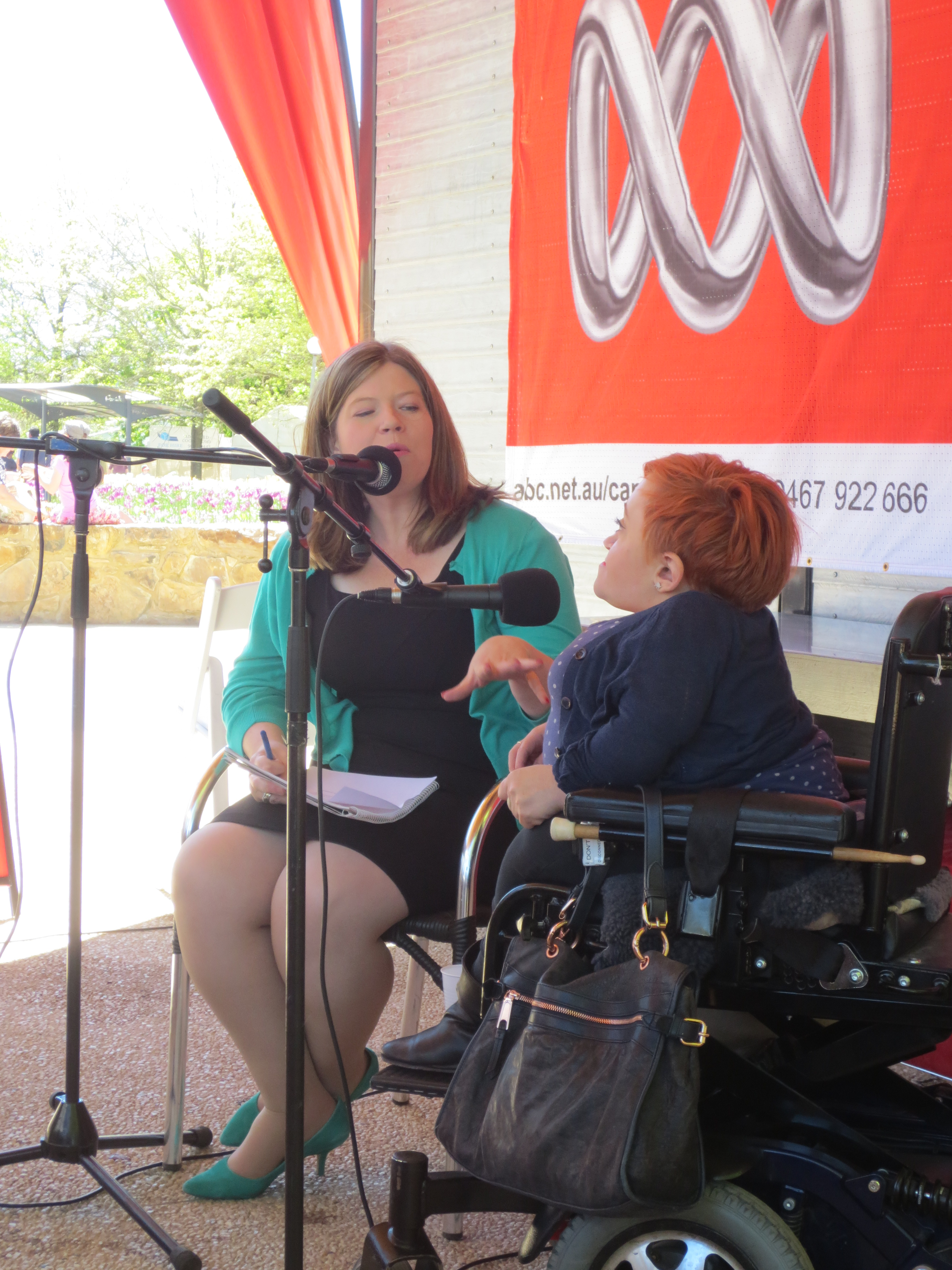 Interview as part of talkfest series by the Australian Broadcasting Commission. Floriade Canberra in 2013. Outdoor broadcast by radio station